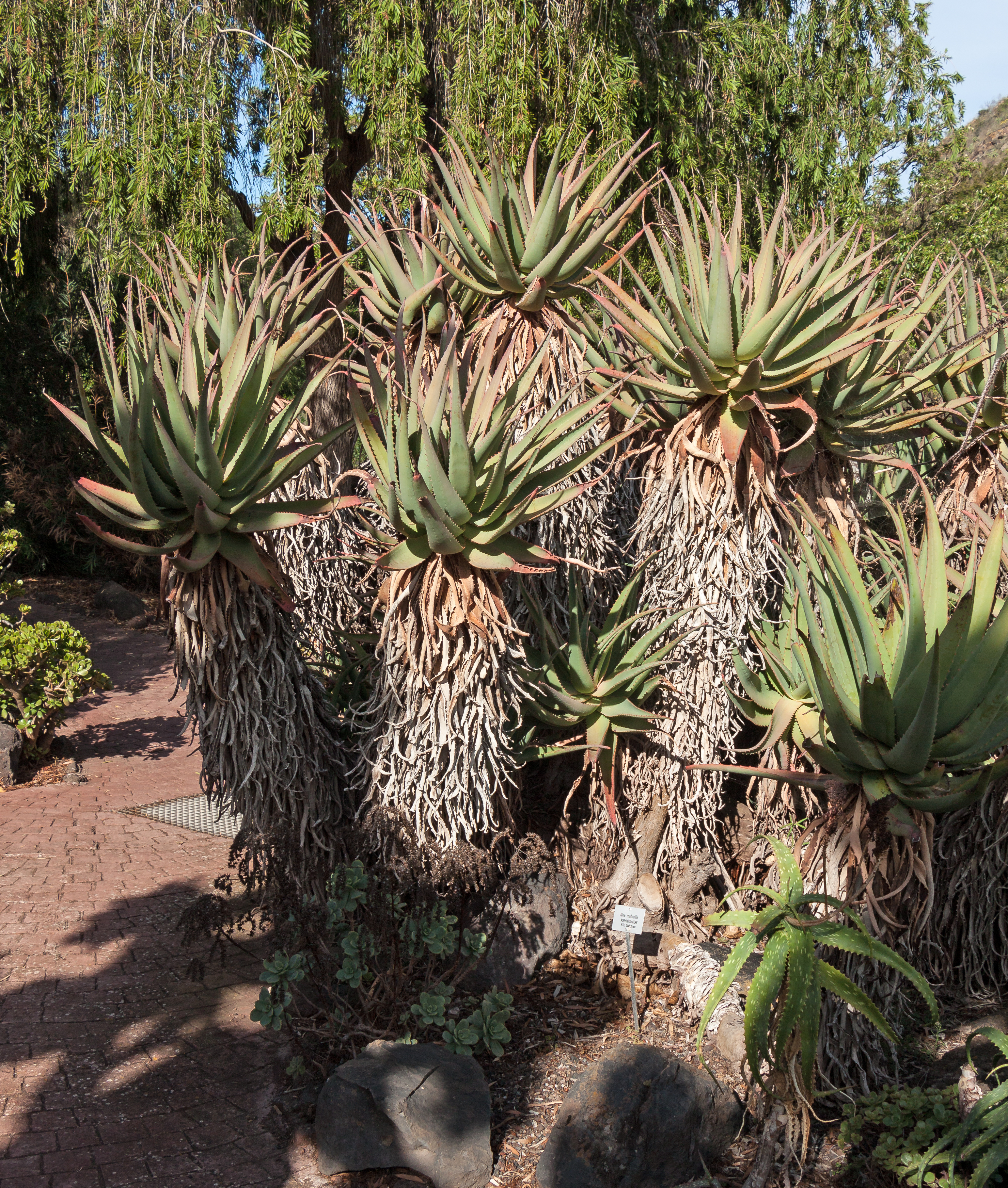 Aloe mutabilis Pillans; habitus; Jardín Botánico Canario Viera y Clavijo, Gran Canaria, Canary Islands, Spain.